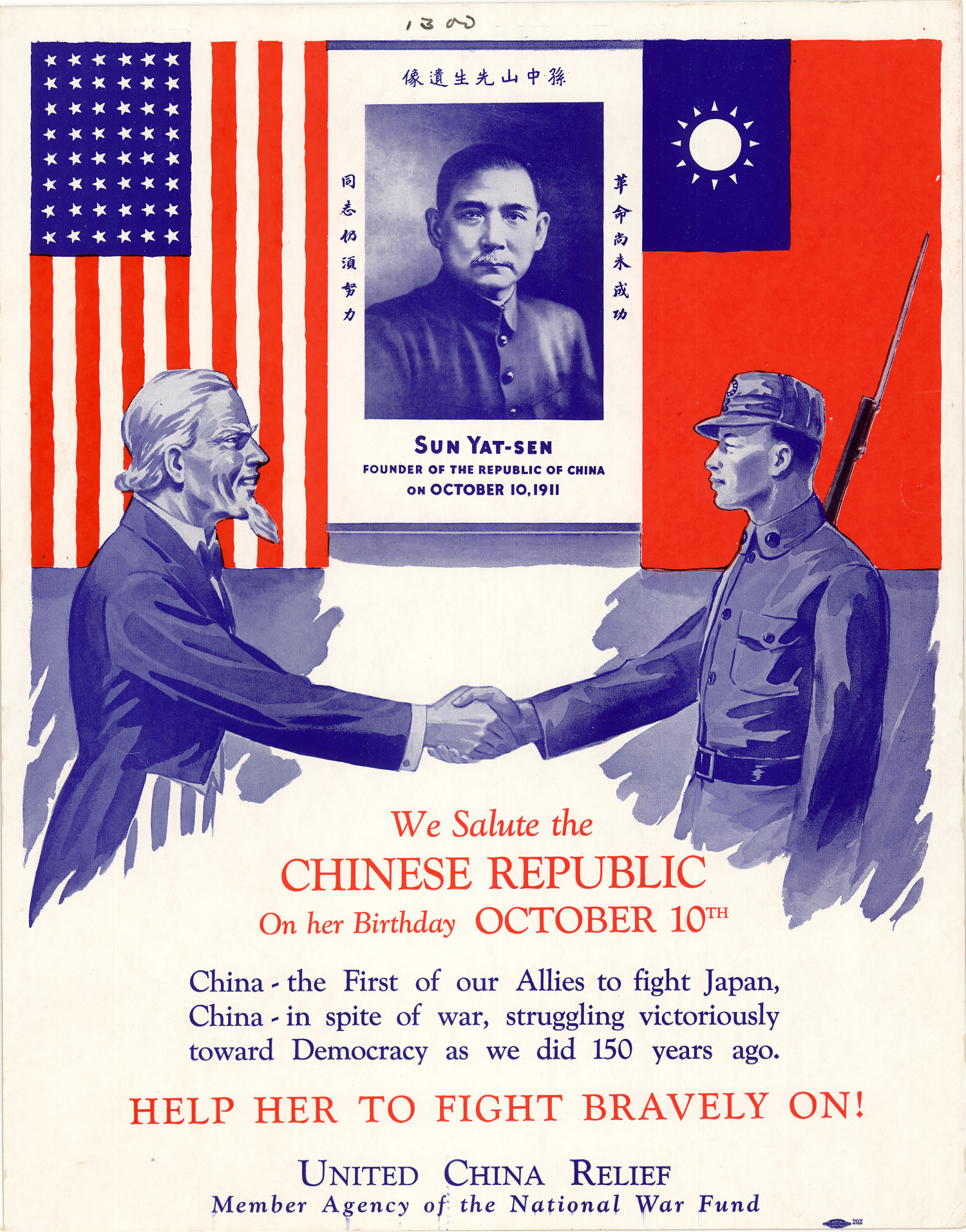 Propaganda poster for the United China Relief.